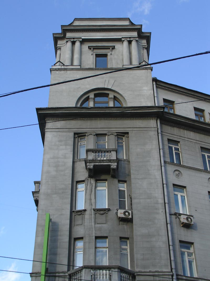 1910s neoclassical buildings in Solyanka Street, Moscow